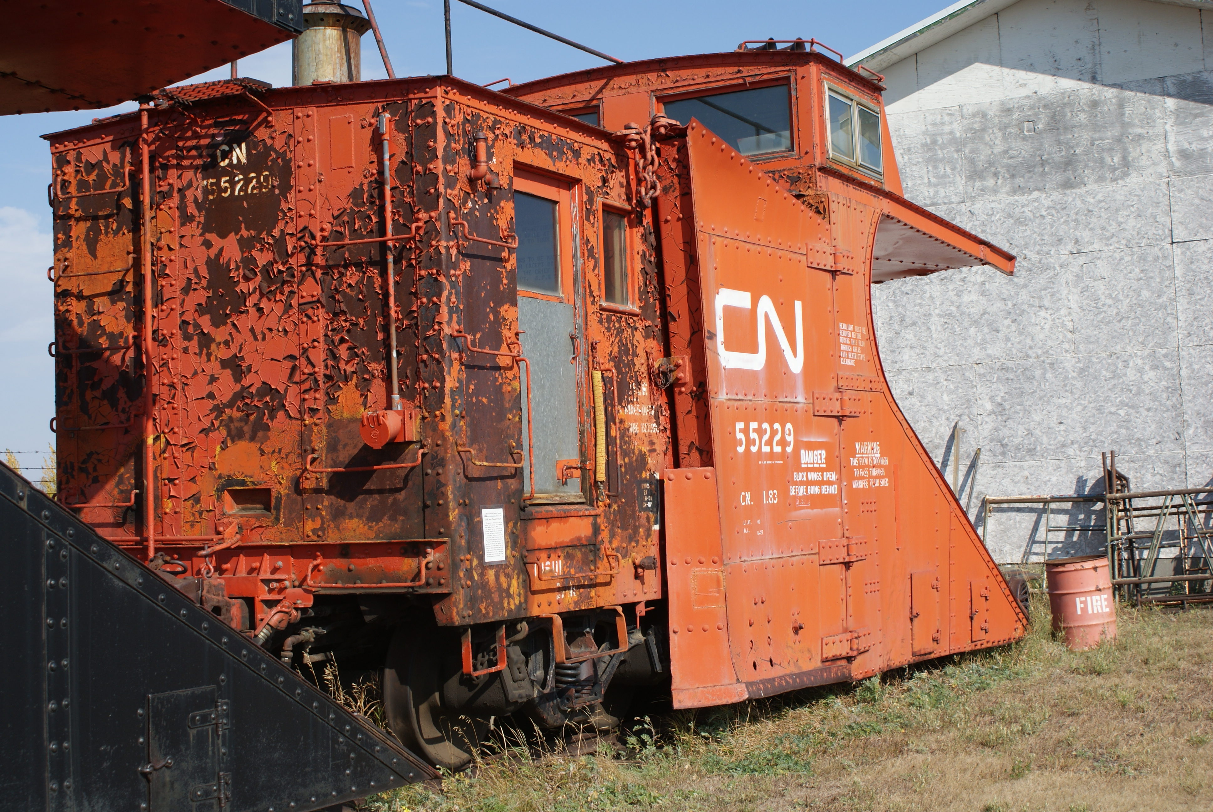 CNR Snow Plough 55229 pushes snow from the railway tracks. They are pushed forward by the locomotive of the train. This particular plow was constructed in 1927 and has been preserved by the Saskatchewan Railway Museum as of the year 2000. The snow plow front blades can be raised and lowered. There are also wings to the side of the snow plow directing snow banks out and away from the train passing on the tracks. The snow plow flanger and foreman within all this blowing snow, had to be able to adjust wings and blades when there were obstacles to the side of the tracks or train crossings to go over. The spring 1996 edition of the Prairie Switcher the newsletter of the Saskatchewan Railroad Historical Society (editor P.J. Kennedy) tells of the experiences of Art Vessey. His father was plough and flanger foreman. Prairie snow ploughs have a roof overhang over the snow blades to help the snow plow flanger and foreman operate the snow plow with less obstructed visibility. Snow ploughs used in the mountains out west did not have an overhang.